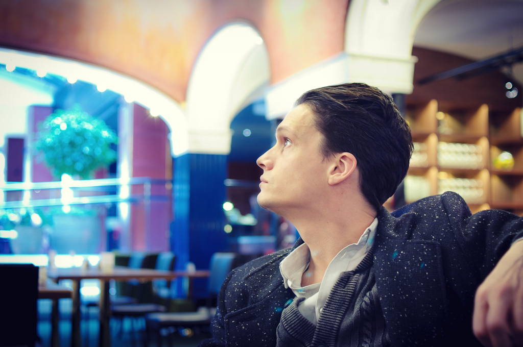 Swedish singer Jonathan Johansson photographed at Scandic Grand Central in Stockholm.